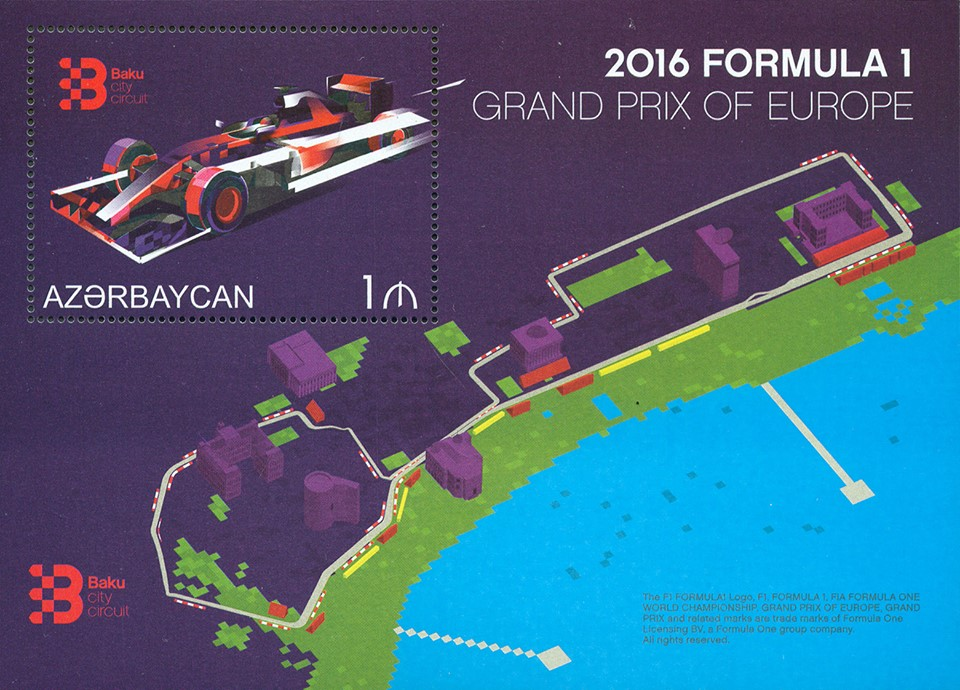 N 1266 - 1 manat. There are pictured a Formula 1 car on the stamp. There are pictured track map of the grand prix of Europe in the Baku, Azerbaijan on the field of sheet.